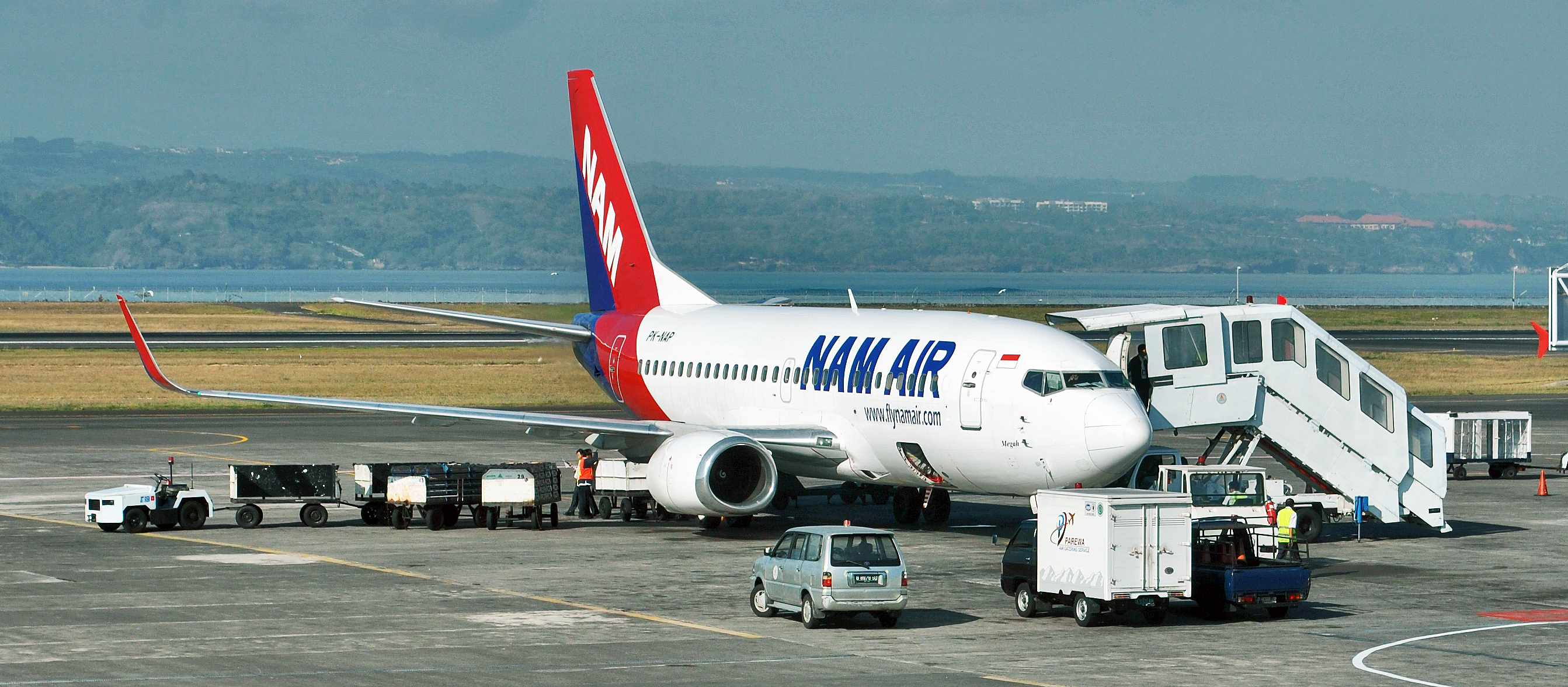 NAM Air Boeing 737-500 (PK-NAP, named "Megah"), at Ngurah Rai Airport. It appears they're unloading cargo. And according to , the PK-NAP, was formerly PK-CMC, which I spot a year ago.